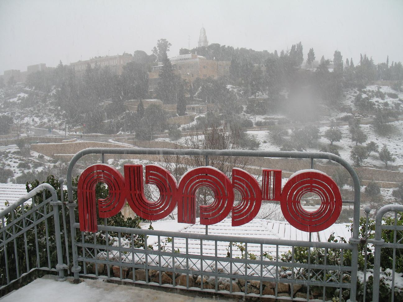 Jerusalem Cinematheque, Israel, on a snowy day